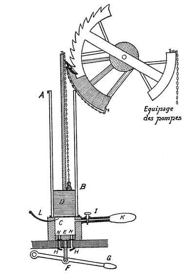 Uploaded from reproduction in - Michelet, Henri (1965). L'inventeur Isaac de Rivaz: 1752 - 1828. Editions Saint-Augustin. Retrieved 2011-05-28. Page 215